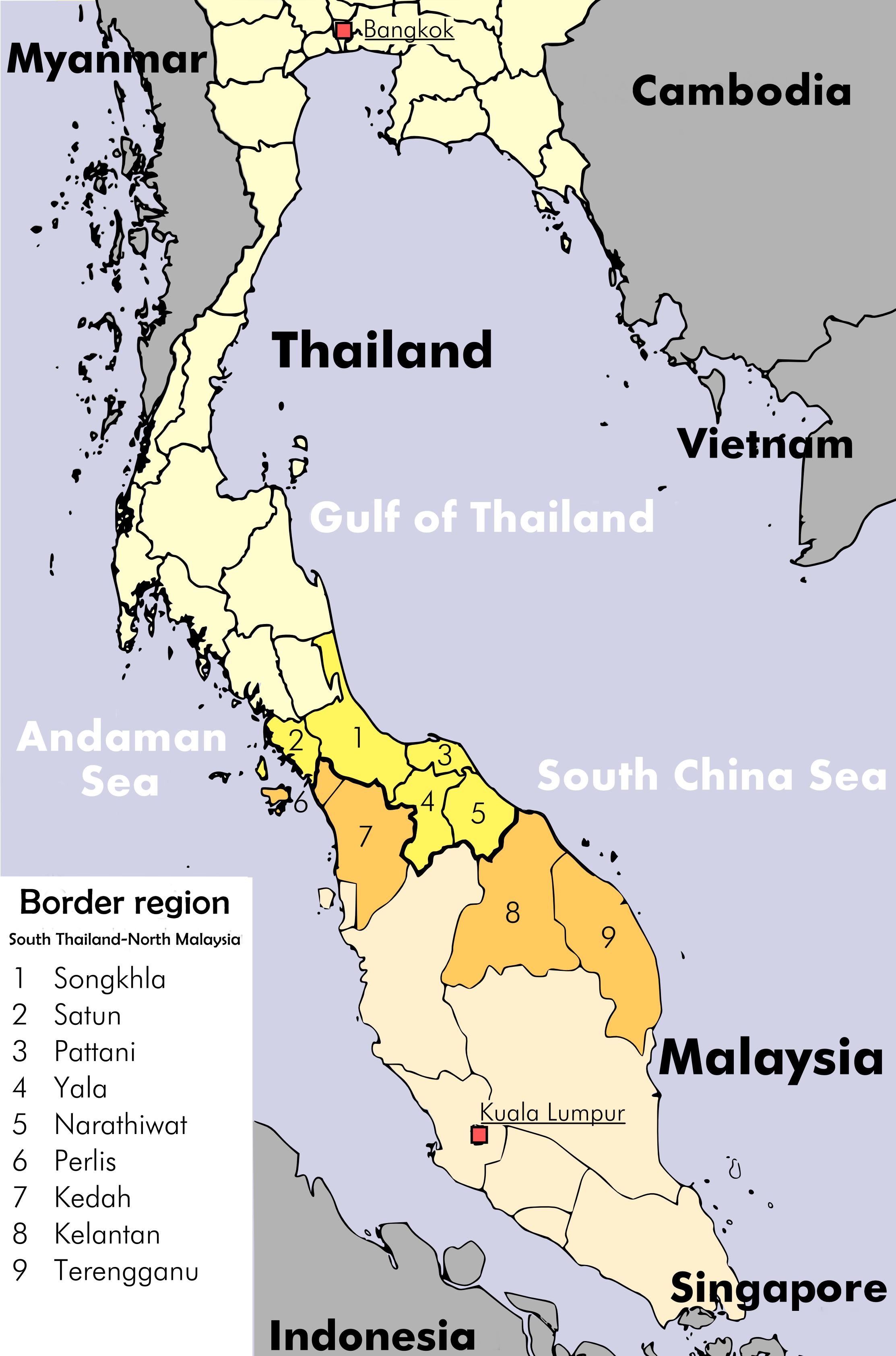 Map of the Thai-Malay border region.